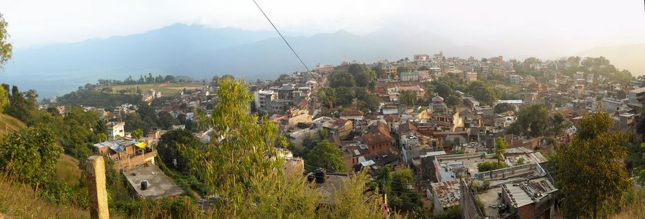 Tansen, Palpa District - Nepal